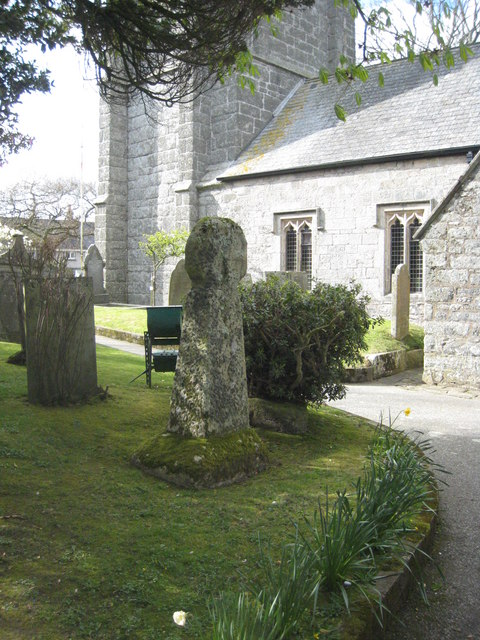 Ancient cross in St Stephen churchyard A Pre-Conquest cross head set on a C19 shaft.